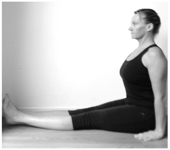 Dandasana is the basic seated yoga pose from which all the others originate. Strengthens legs; improves alignment